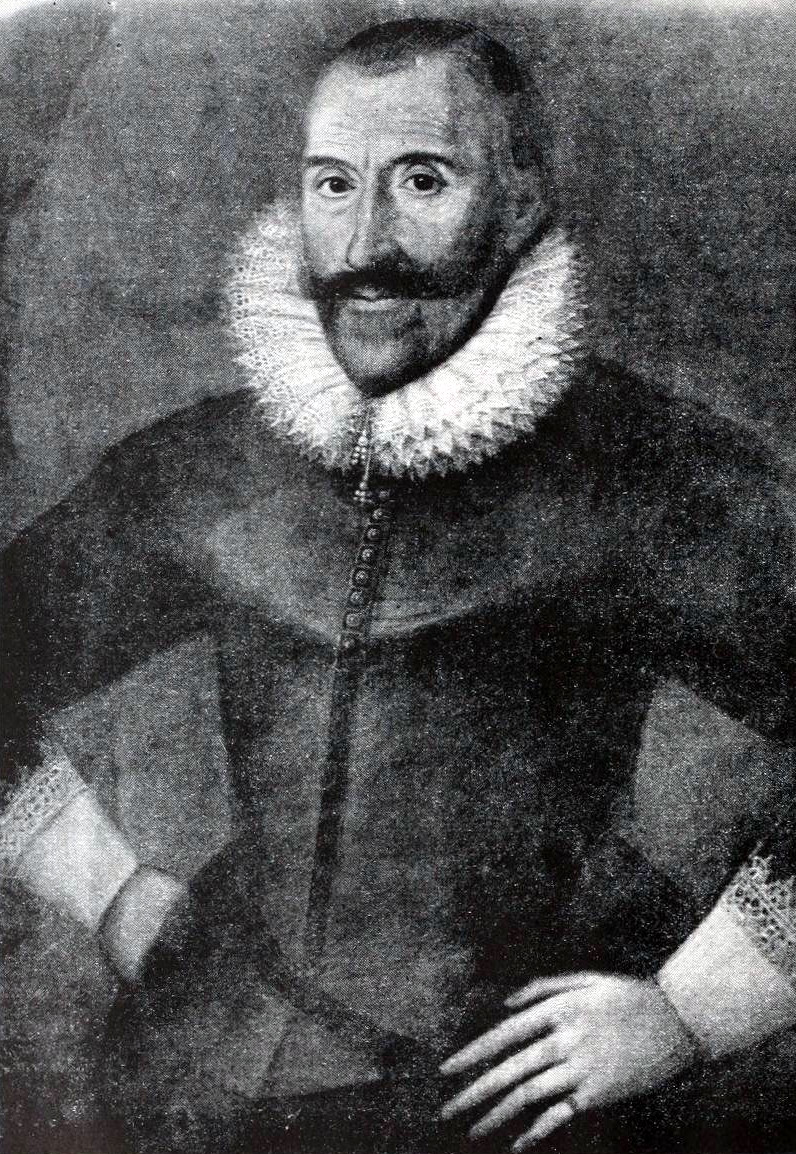 Sir Vincent Corbet (died 1623) of Moreton Corbet, Shropshire. Son of Sir Andrew Corbet (died 1578). Monochrome photo of an early 17th century oil painting.